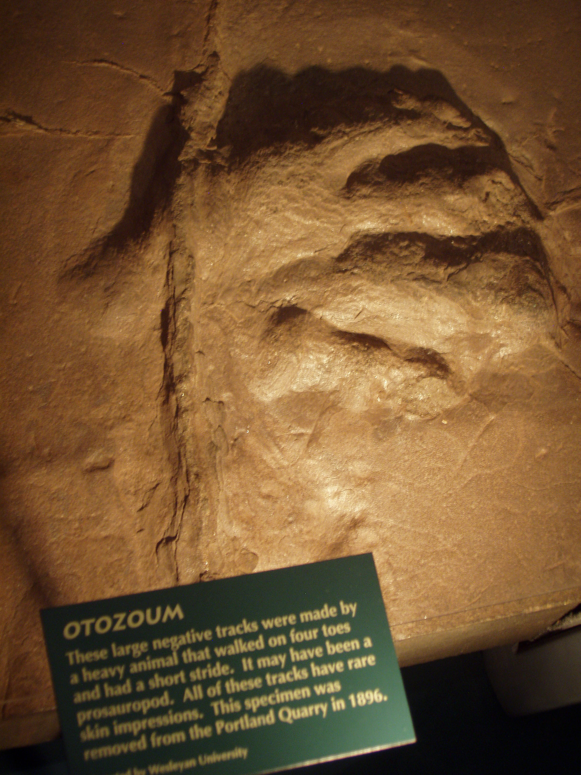 Otozoum tracks in the Dinosaur State Park and Arboretum, Rocky Hill, Connecticut, USA. The exhibit sign reads: "These large negative tracks were made by a heavy animal that walked on four toes and had a short stride. It may have been a prosauropod. All of these tracks have rare skin impressions. This specimen was removed from the Portland Quarry in 1896. Donated by Wesleyan University."